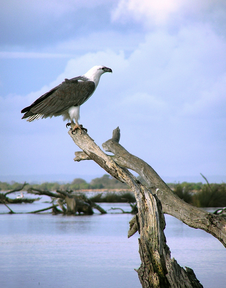 A White-bellied Sea Eagle in Bairnsdale, Gippsland, Victoria, Australia.